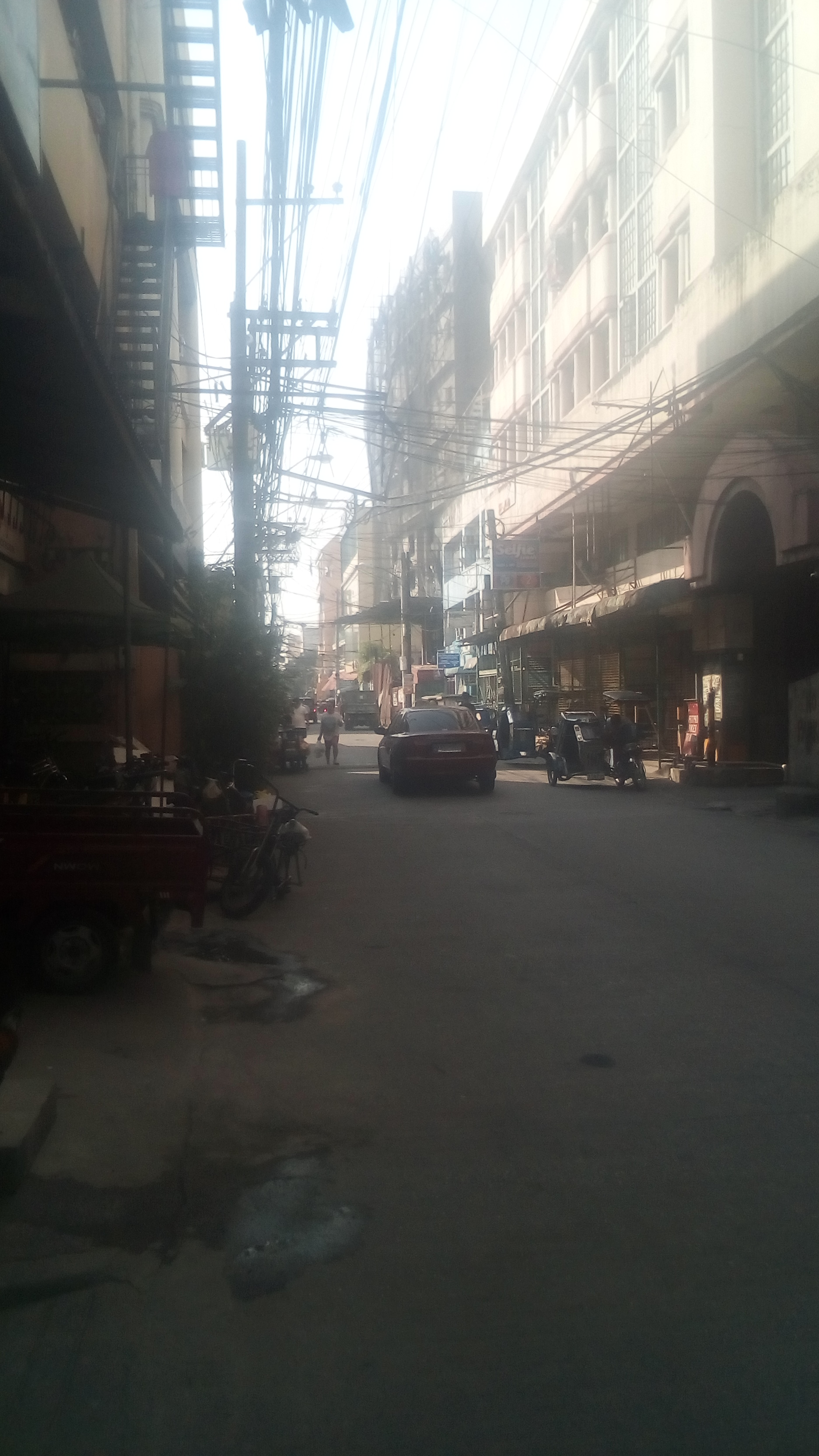 Leveriza Street in Pasay